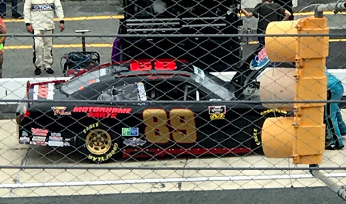 Morgan Shepherd on pit road at Dover International Speedway